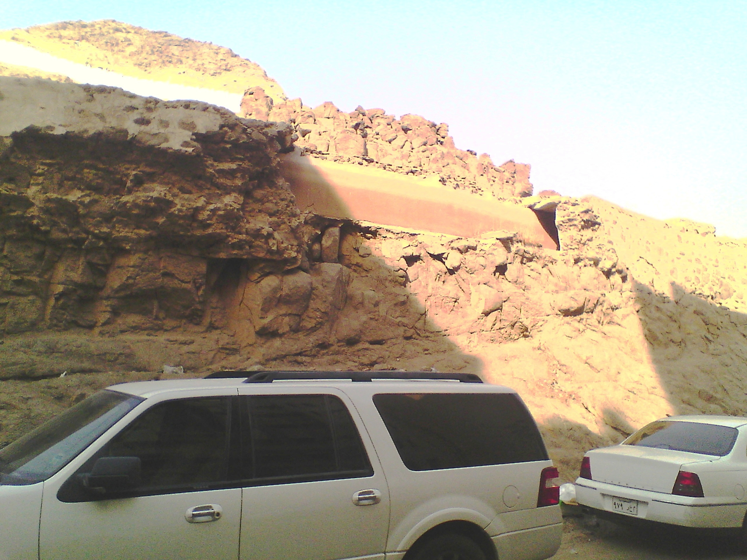 Historical aqueduct made by princess Zubaidah for Macca